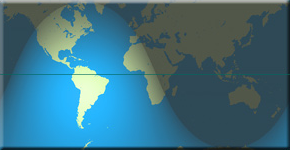 The solar terminator line on January 3, 2008 at 16:31:47 UTC